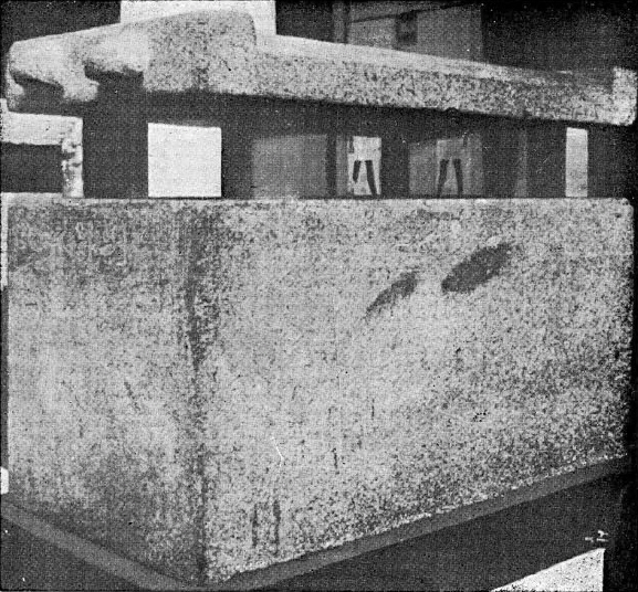 Sarcophagus of Horbaef, Gizeh, 4th dynasty, Egyptian Museum Cairo